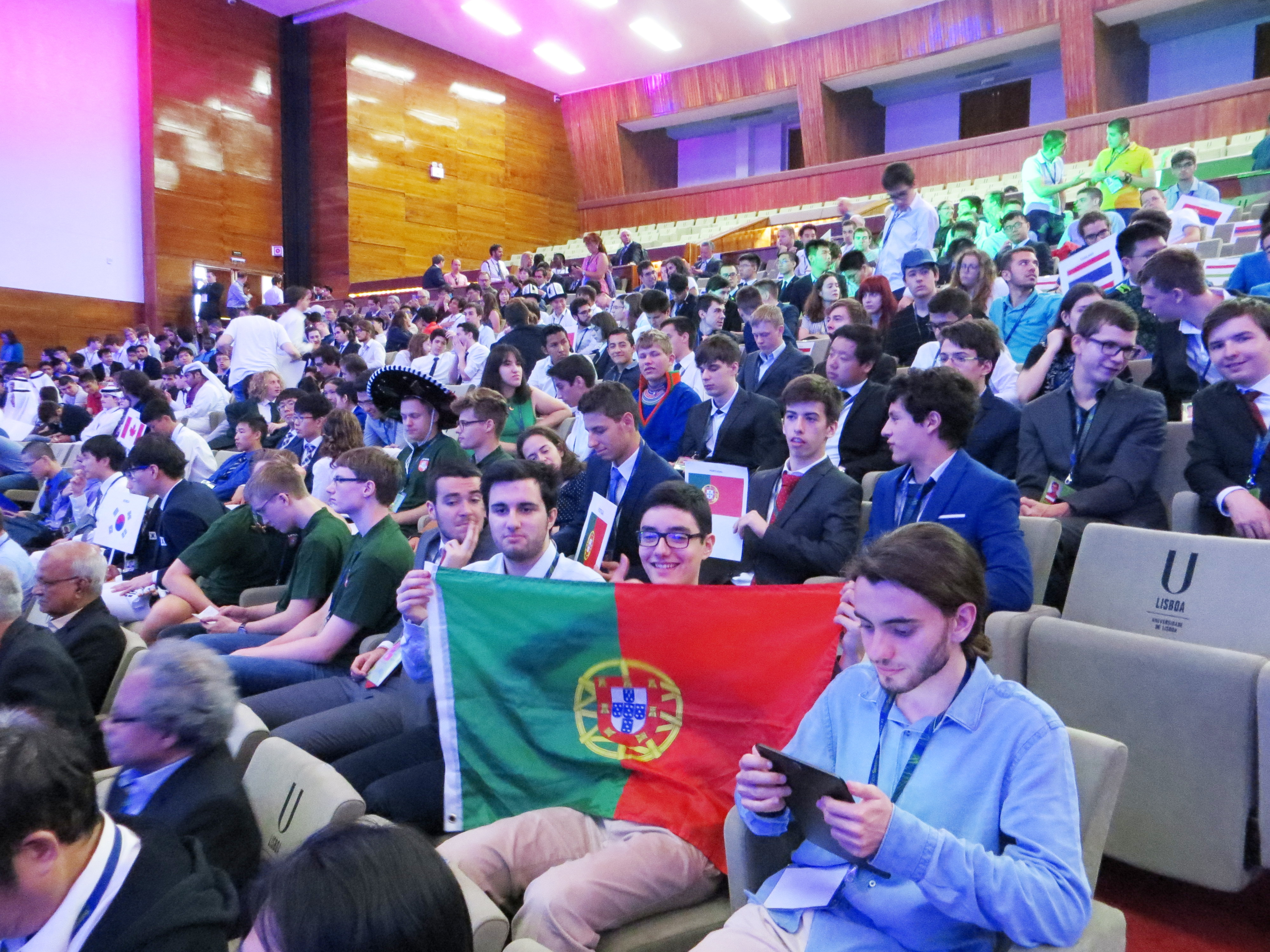 Opening ceremony of the 2018 International Physics Olympiad in Lisbon.